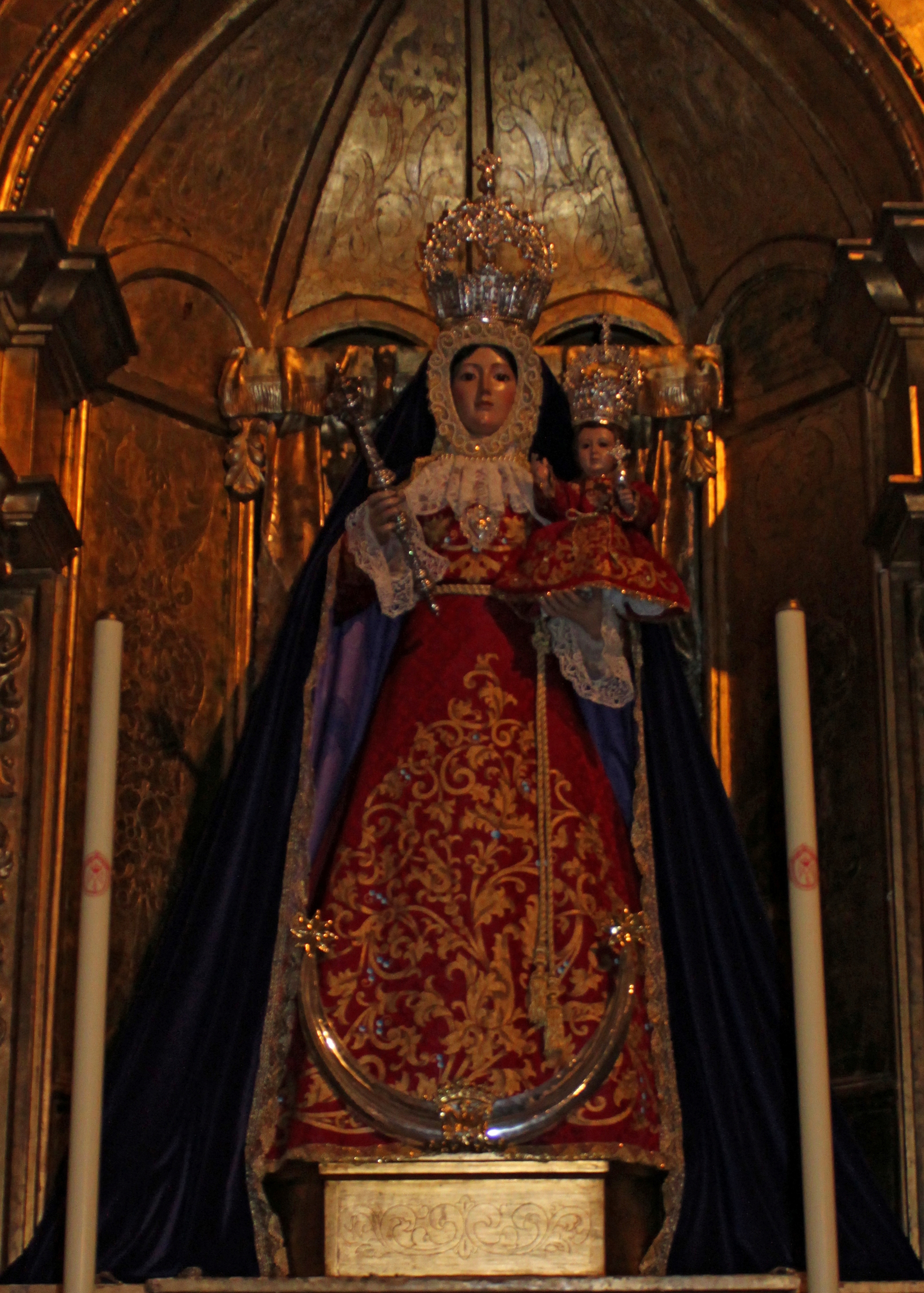 Image of Our Lady of Araceli, by Antonio Castillo Lastrucci (1944). Church of San Andrés (Seville). Spain.